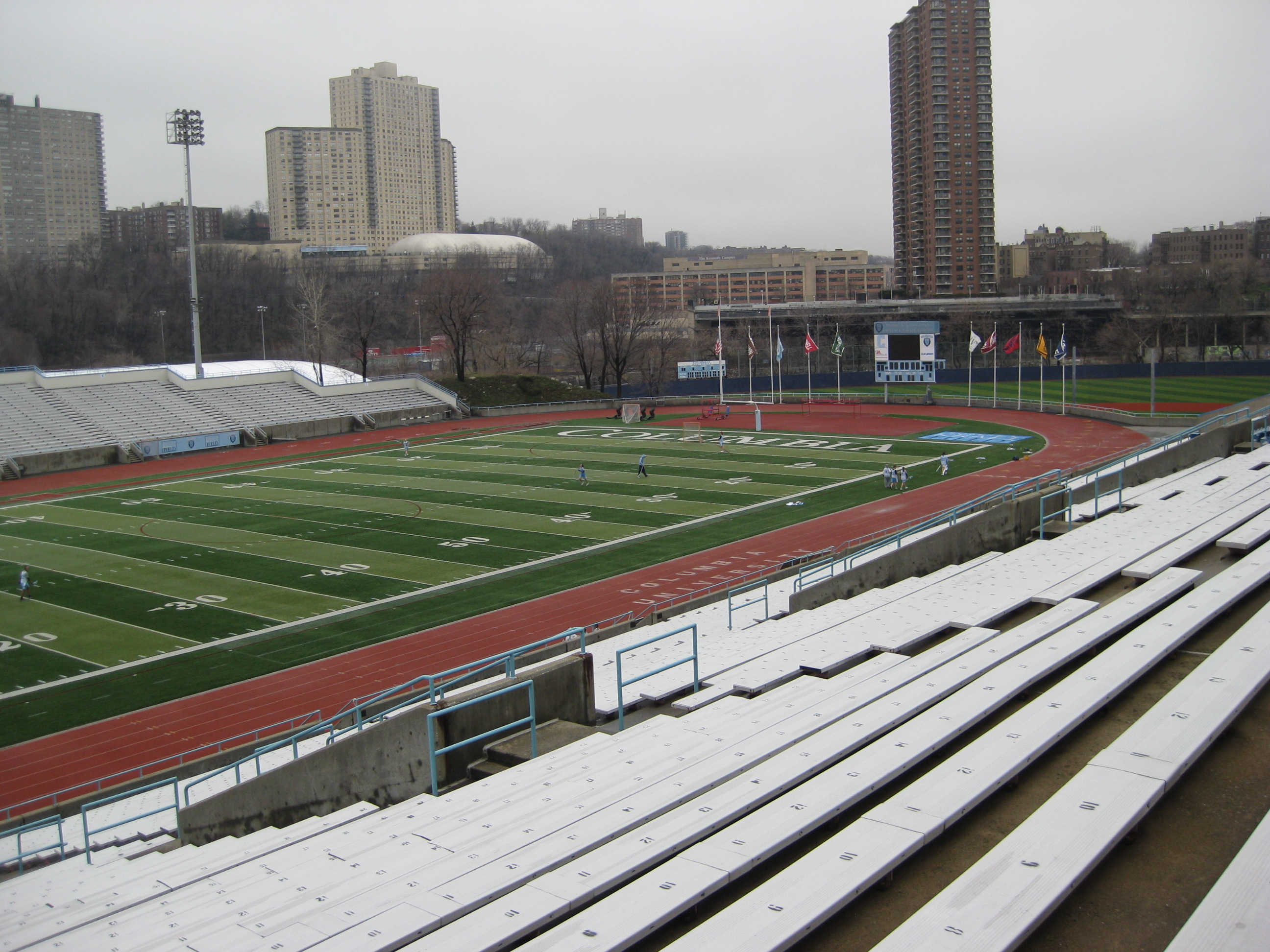 This photo is of Wikipedia Takes Manhattan location code 13, Columbia Soccer Stadium.